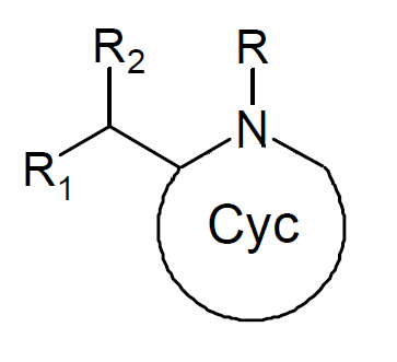 General structure of phenidate family of compounds